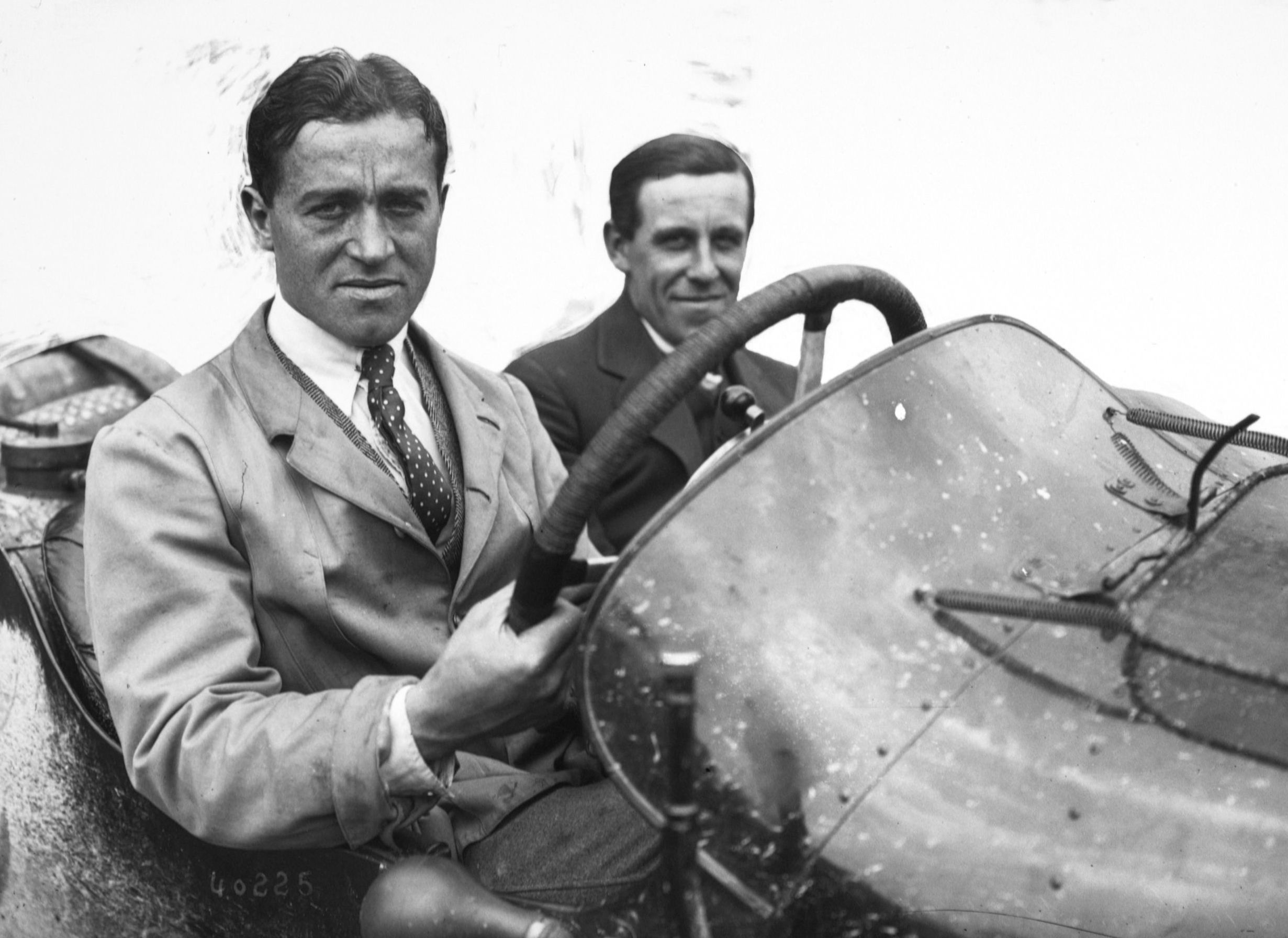 Dario Resta at the 1914 French Grand Prix